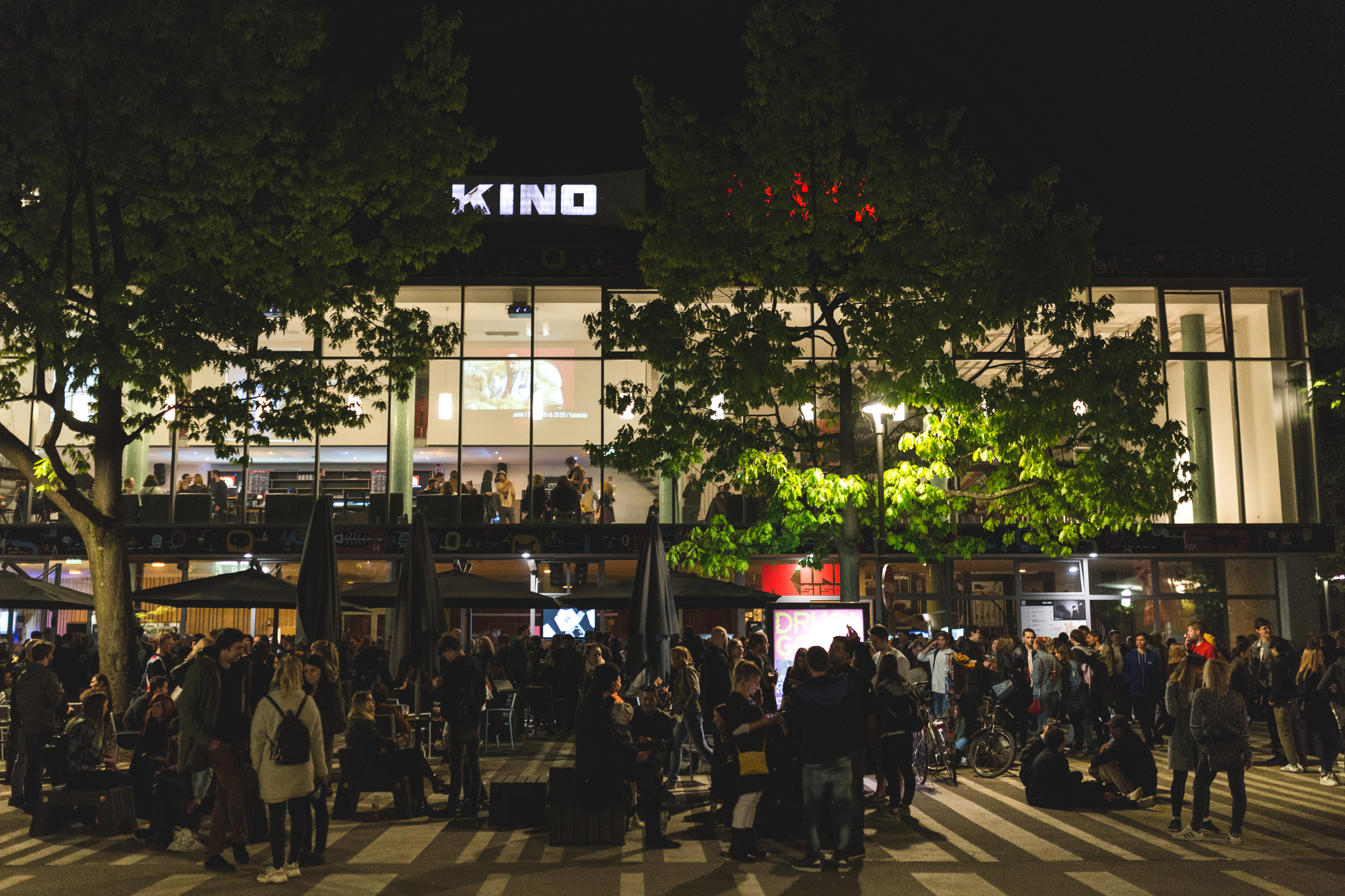 Kino Šiška, a center of urban culture in Ljubljana, Slovenia